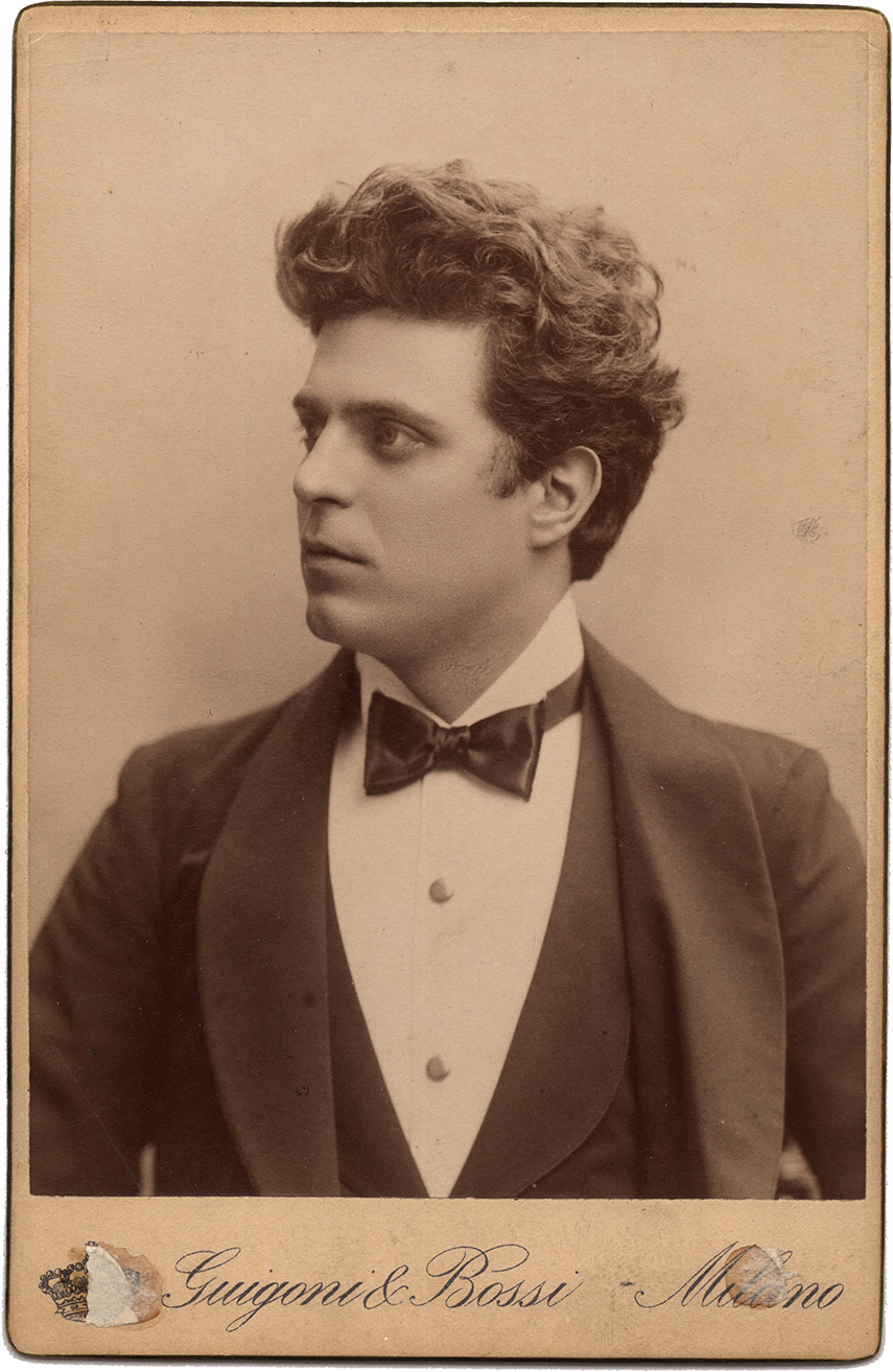 Portrait of Pietro Mascagni, composer (1863-1945). Photo by Guigoni & Bossi, Milano, before 1945.